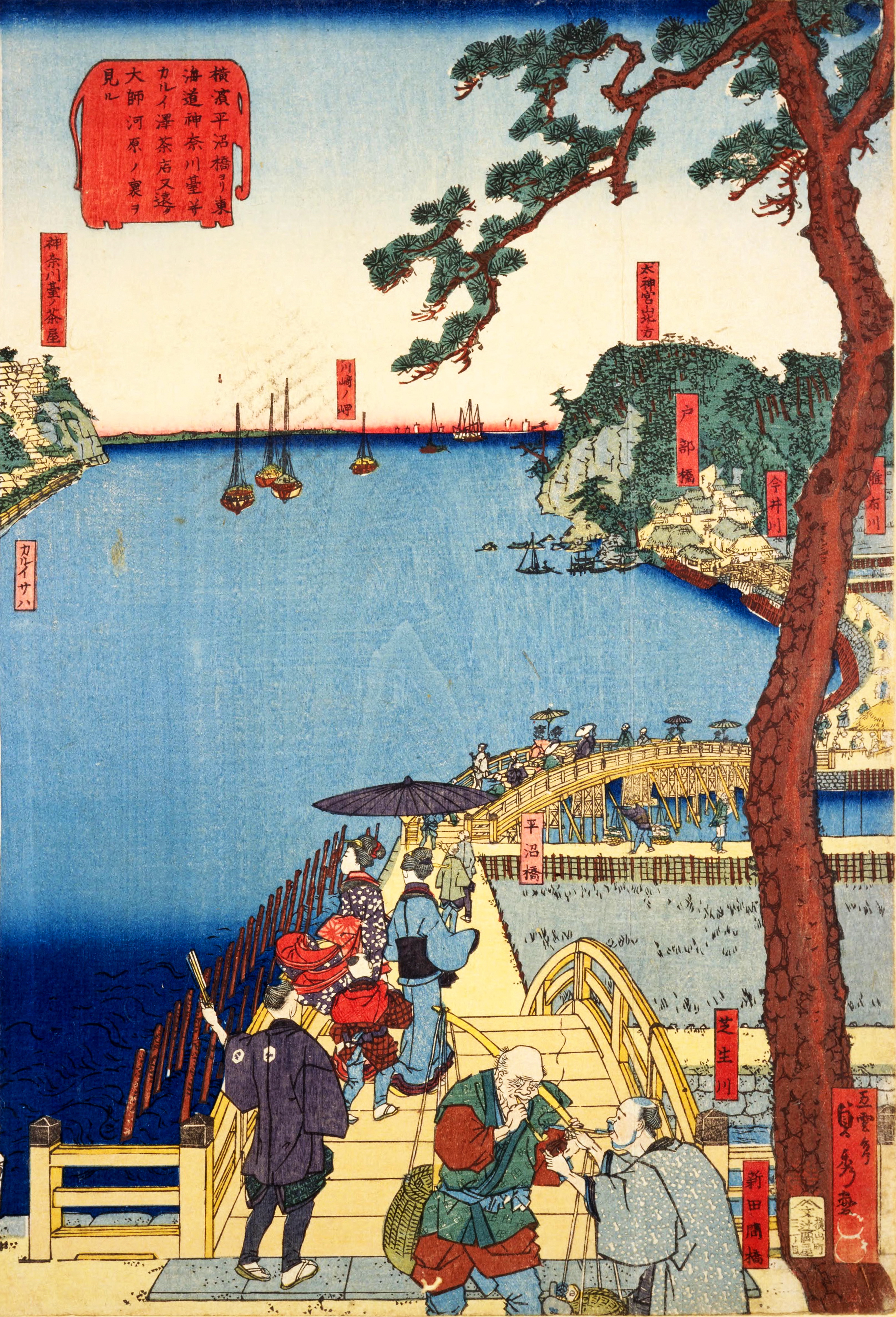 Shin-Yokohama Street in the Edo period (around 1860) seen from Aratama bridge.The part of the sea on the left is Kita-Saiwai and Minami-Saiwai, Nishi-ku, Yokohama.